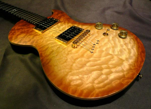 Cort Z-Custom Screenshot